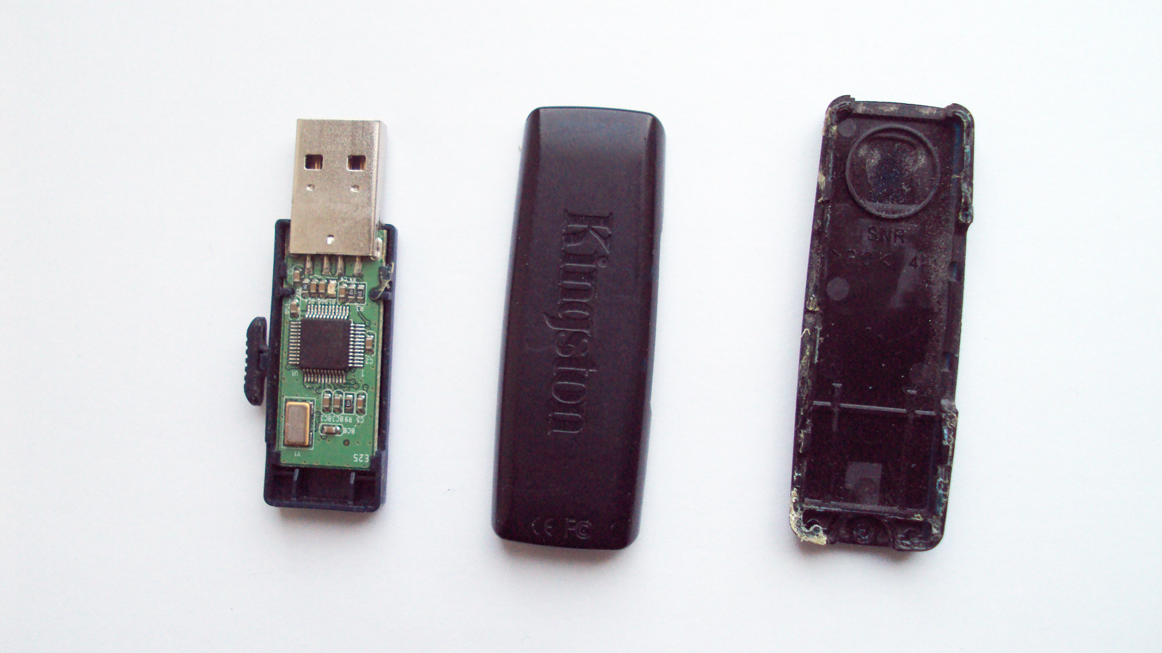 Kingston DataTraveler USB flash drive with case removed to show circuit board inside. (Original description at en.wikipedia: "Kingston Datatraveler Flashdrive.")